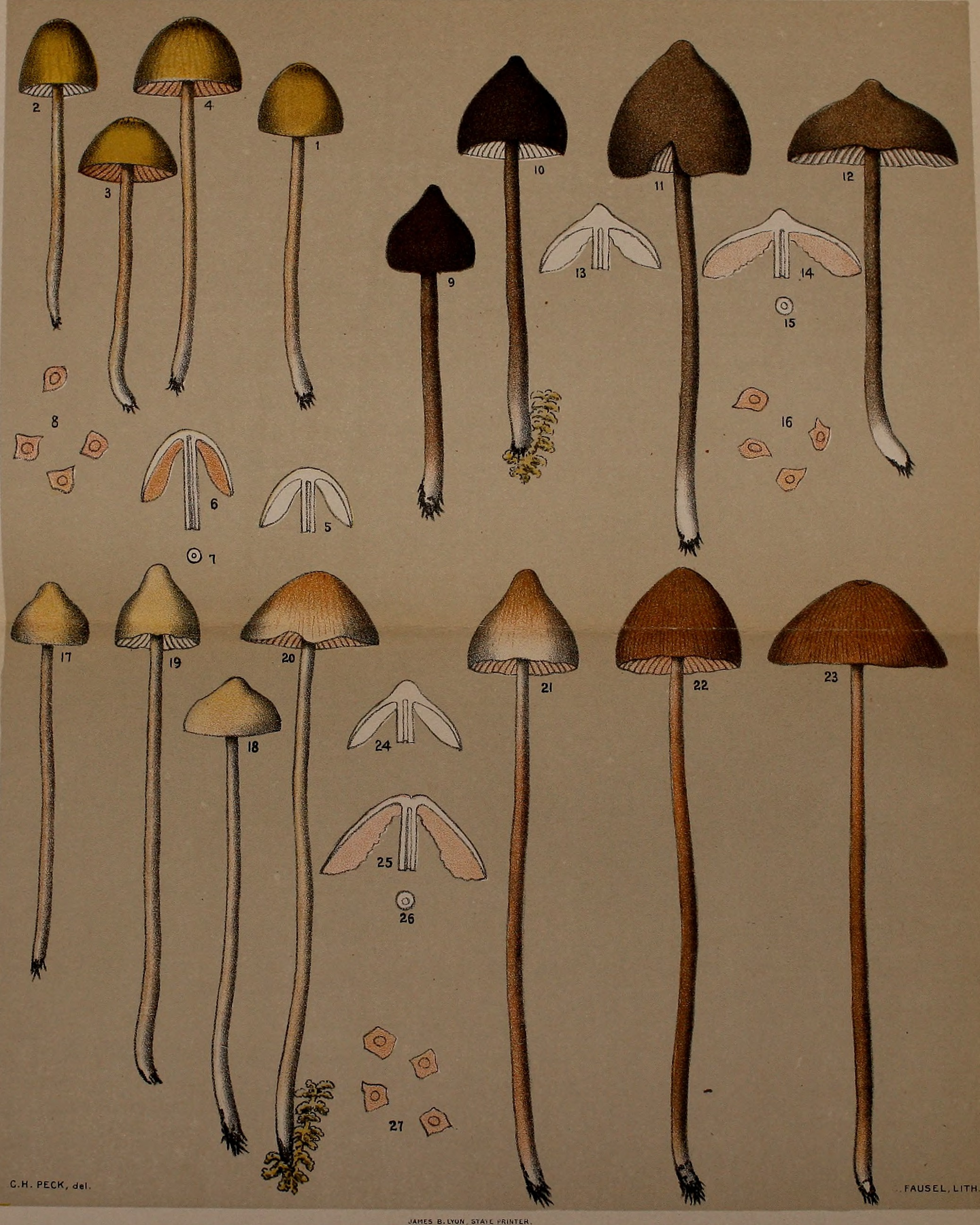 Title: Annual report of the Regents Year: 1889 (1880s) Authors: New York State Museum; University of the State of New York. Board of Regents Subjects: New York State Museum; Science Publisher: Albany : J. B. Lyon, State Printer Text Appearing Before Image: N. Y. STATE Mus. 54. FUNGI Text Appearing After Image: FiG. 1-8 ENTOLOMA LUTEUM pk. YELLOW ENTOLOMA Fig. 9-16 ENTOLOMA PECKIANUM Bunr PECK'S ENTOLOMA FiQ. 17-27 ENTOLOMA VARIABILE pk. VARIABLE ENTOLOMA